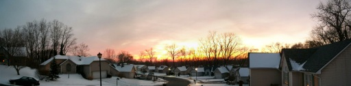 This is a panoramic view of the Harpland neighborhood in Franklin Ohio